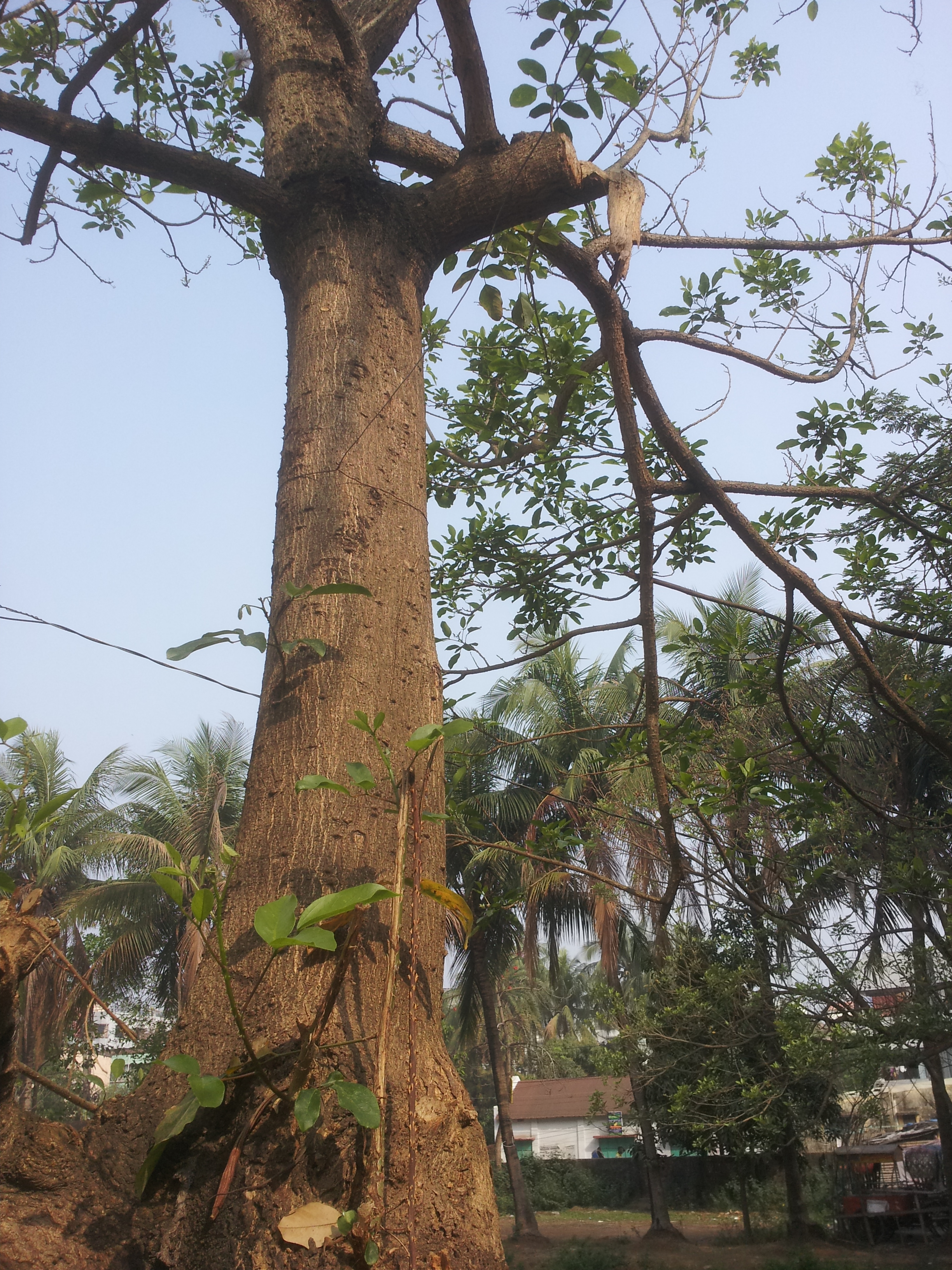 erythrina fusca (Tree), Savar Upazila, Bangladesh.